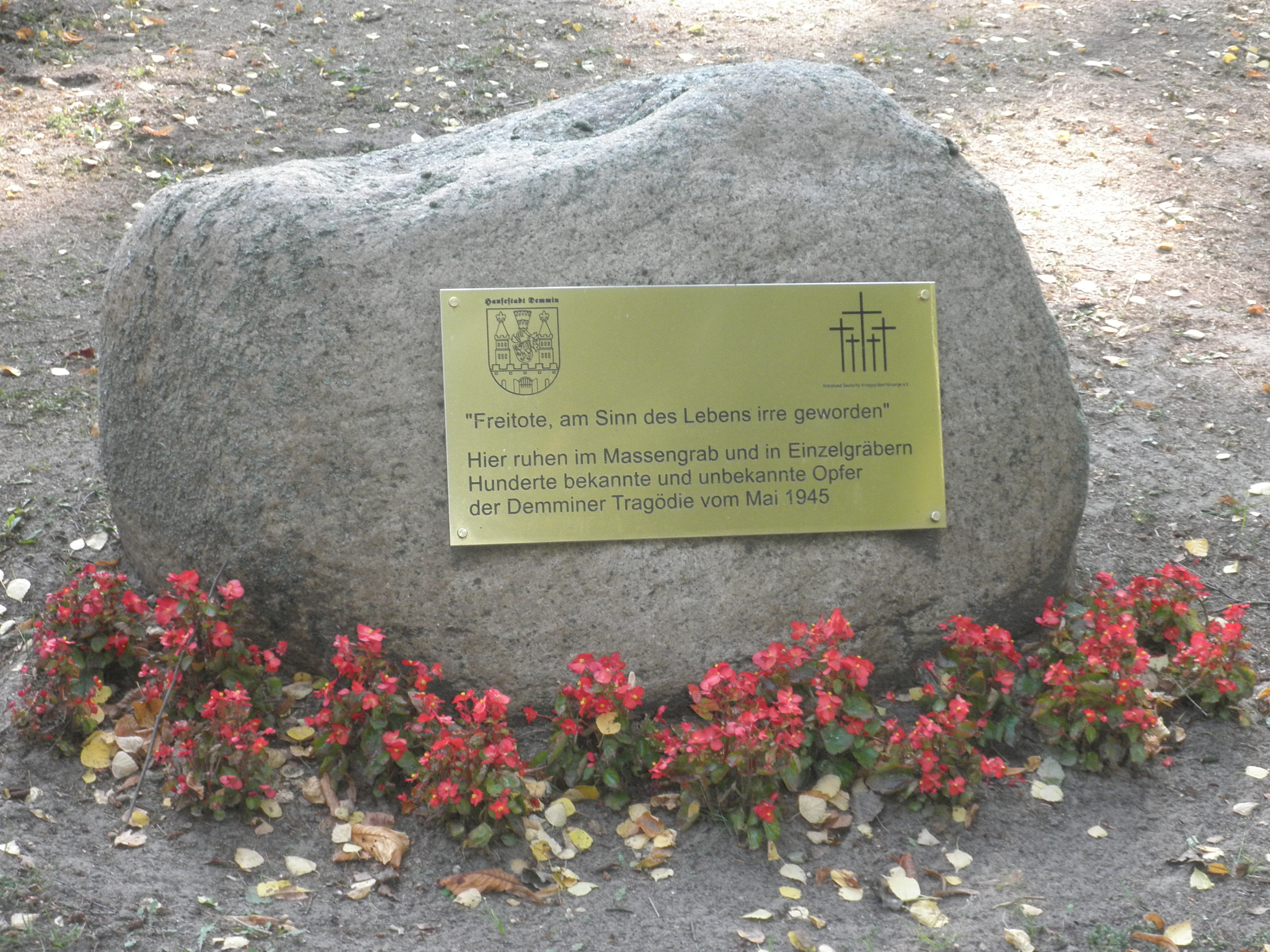 Demmin: Memorial for Suizid Victims 1945 at Cemetery